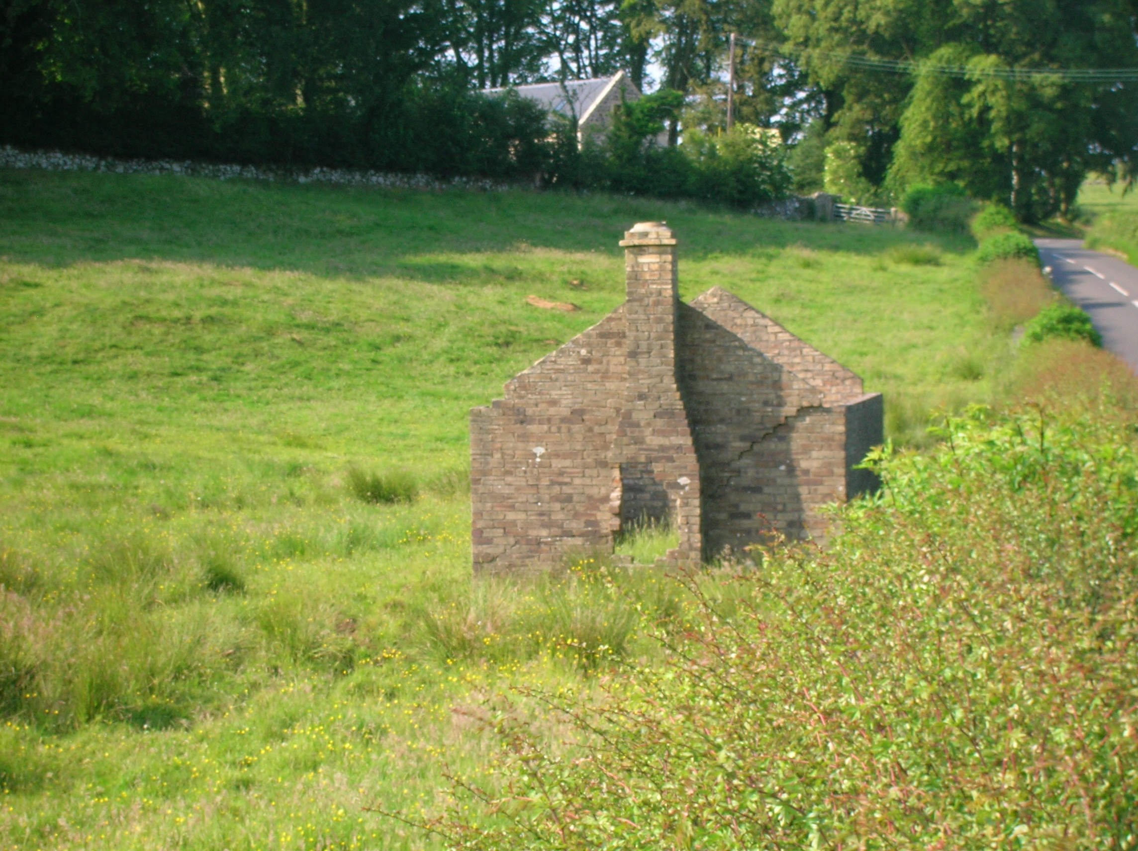 An old Curling House at Craigie village in South Ayrshire, Scotland